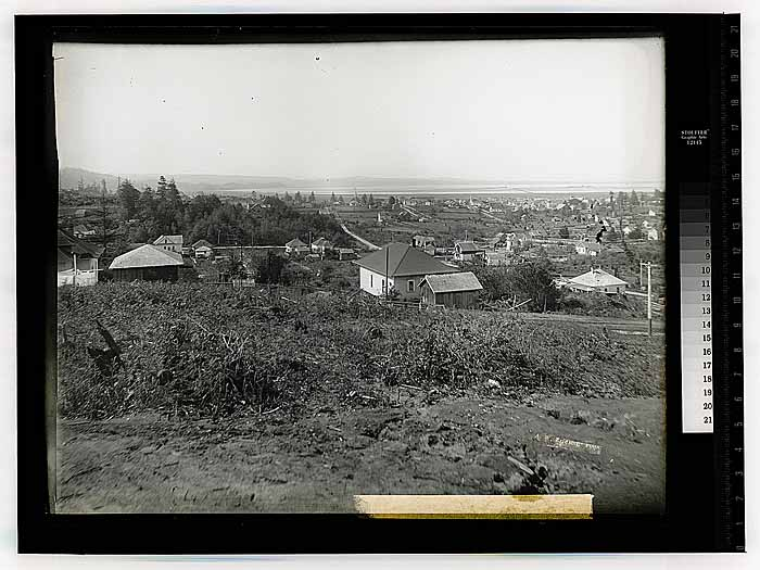 View from high point of Humboldt State Normal campus, 1915. Looking out to Humboldt Bay and Kneeland. From the Ericson Collection at HSU Special Collections.